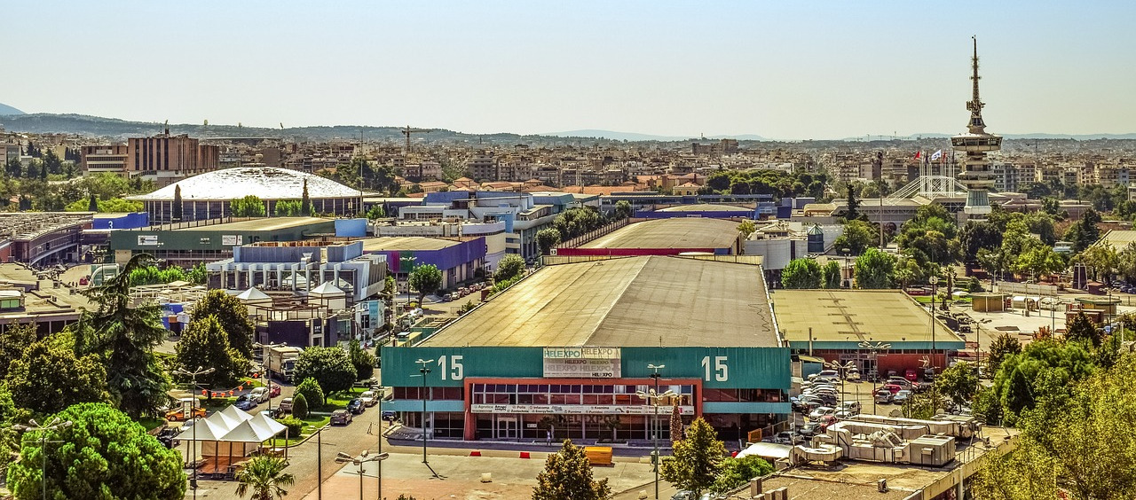 View of Thessaloniki International Exhibition Centre. Buildings 13-15 are used by the Thessaloniki International Book Fair. Cropped from original on Pixabay (uploaded on Nov. 1, 2017)